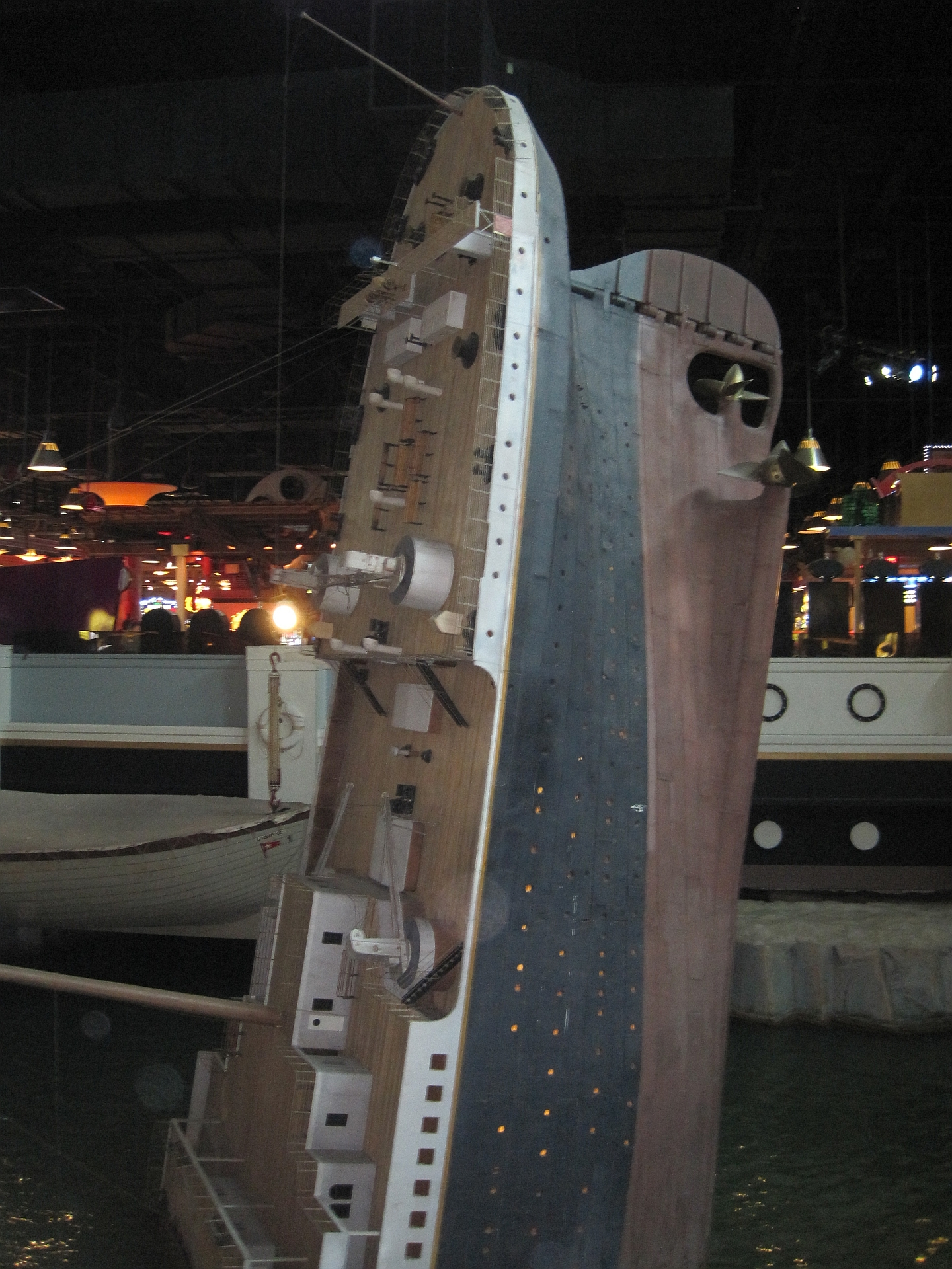 Hollywood Memorabilia Exhibit at the Hollywood Casino in Tunica, Mississippi. Titanic model